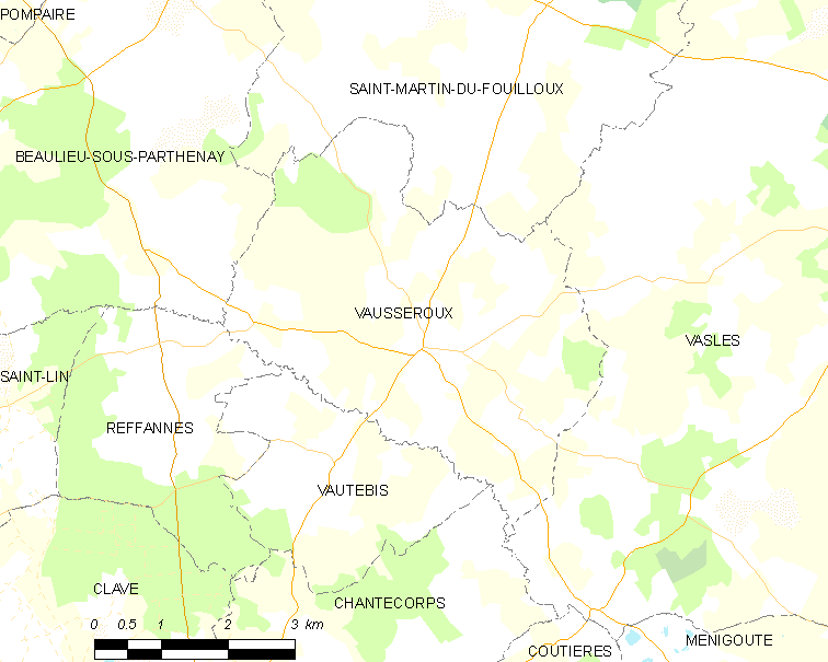 Map of French municipality Vausseroux